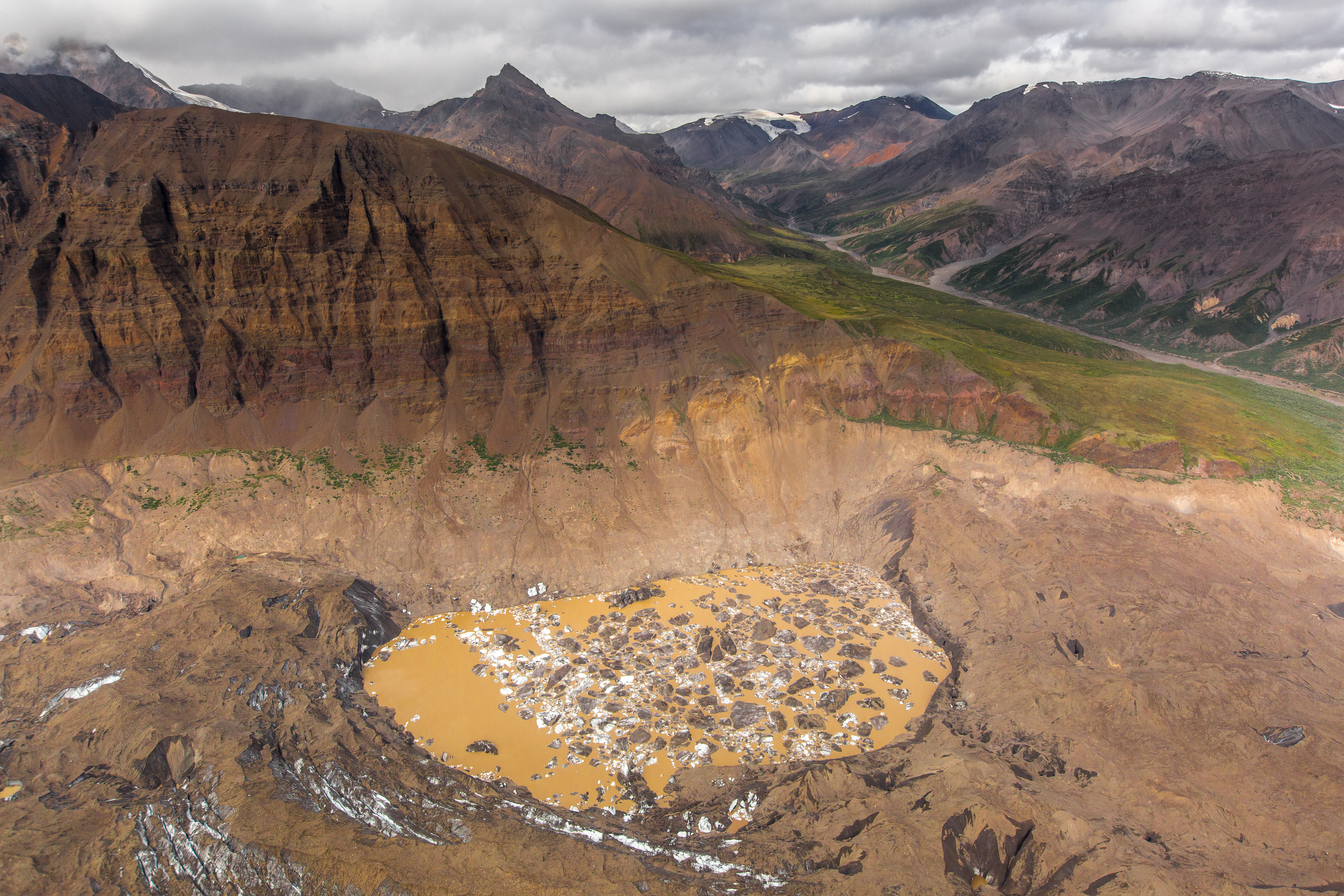 Aerial view of icebergs in supraglacial lake on the Russell Glacier below the stratified layers of sedimentary rock of the southeast slopes of Castle Mountain.